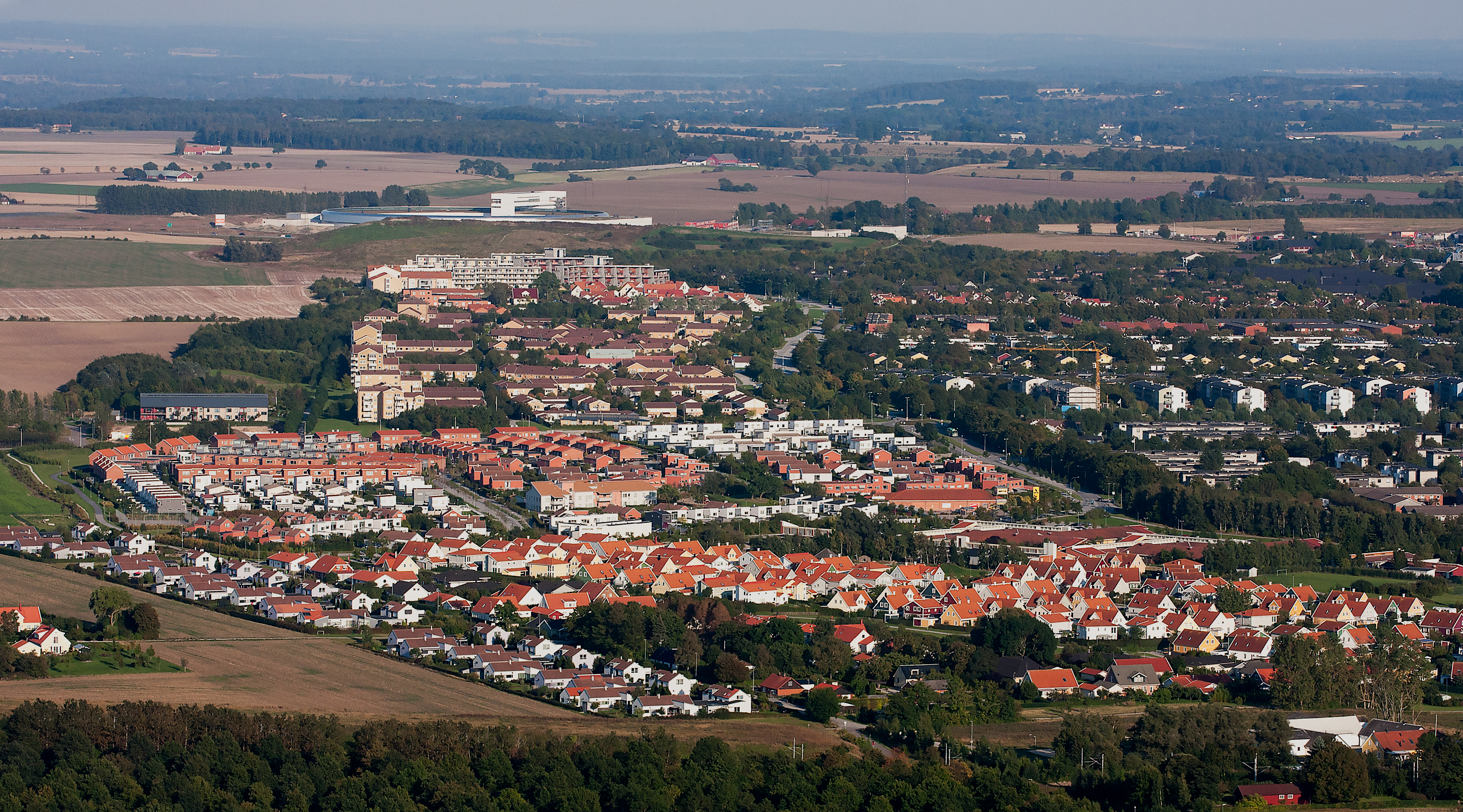 The Annehem neighbourhood in Lund, Sweden.